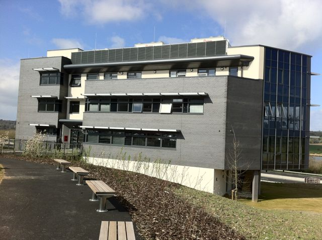 A picture of the TSSG Building in Waterford Institute of Technology, West Campus, Carriagnore, Co Waterford, Ireland. This building opened in Jan 2011 for useage, but has not yet been opened formally with a ceremony.